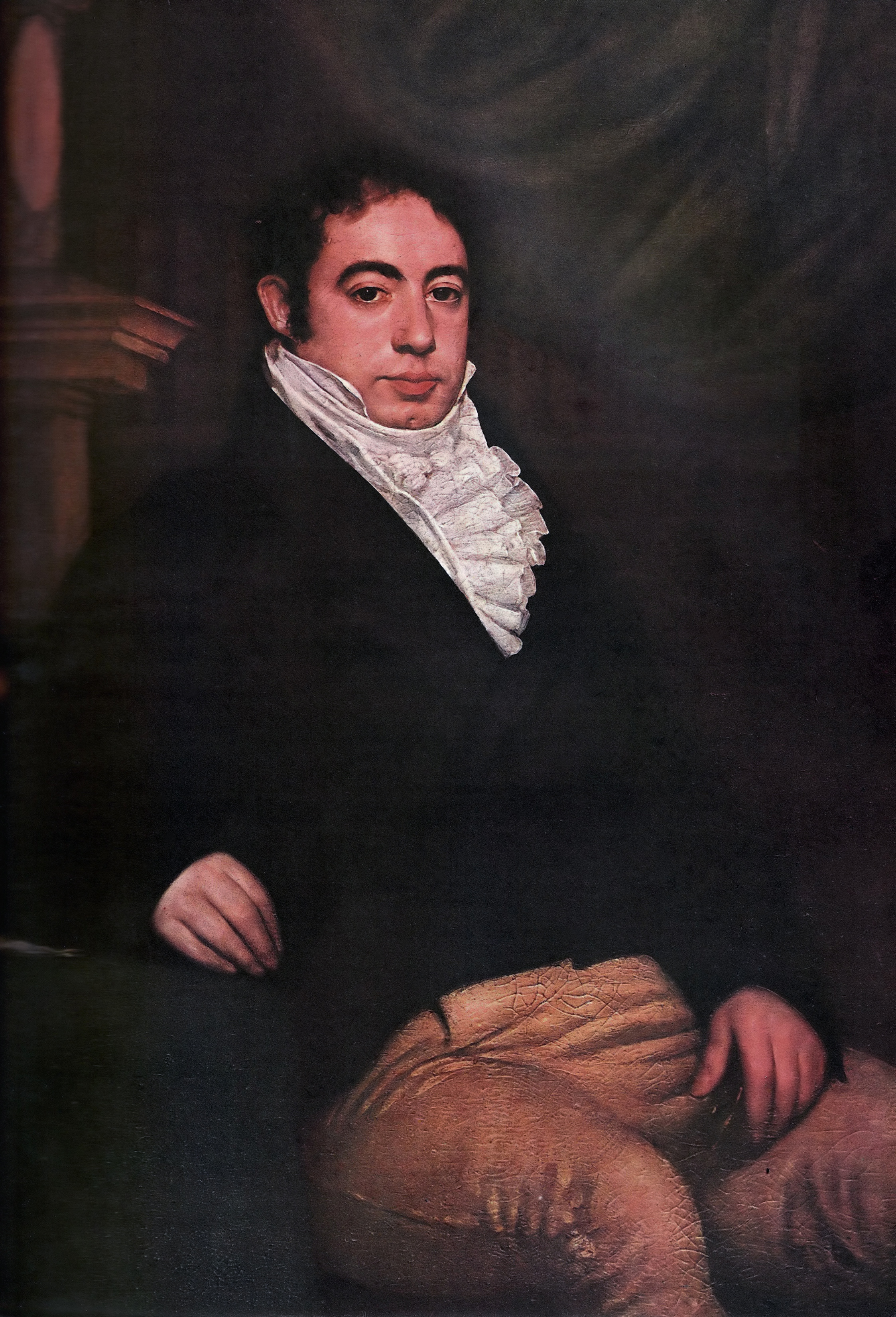 Portrait of Bernardino Rivadavia (1780-1845), while he was at London